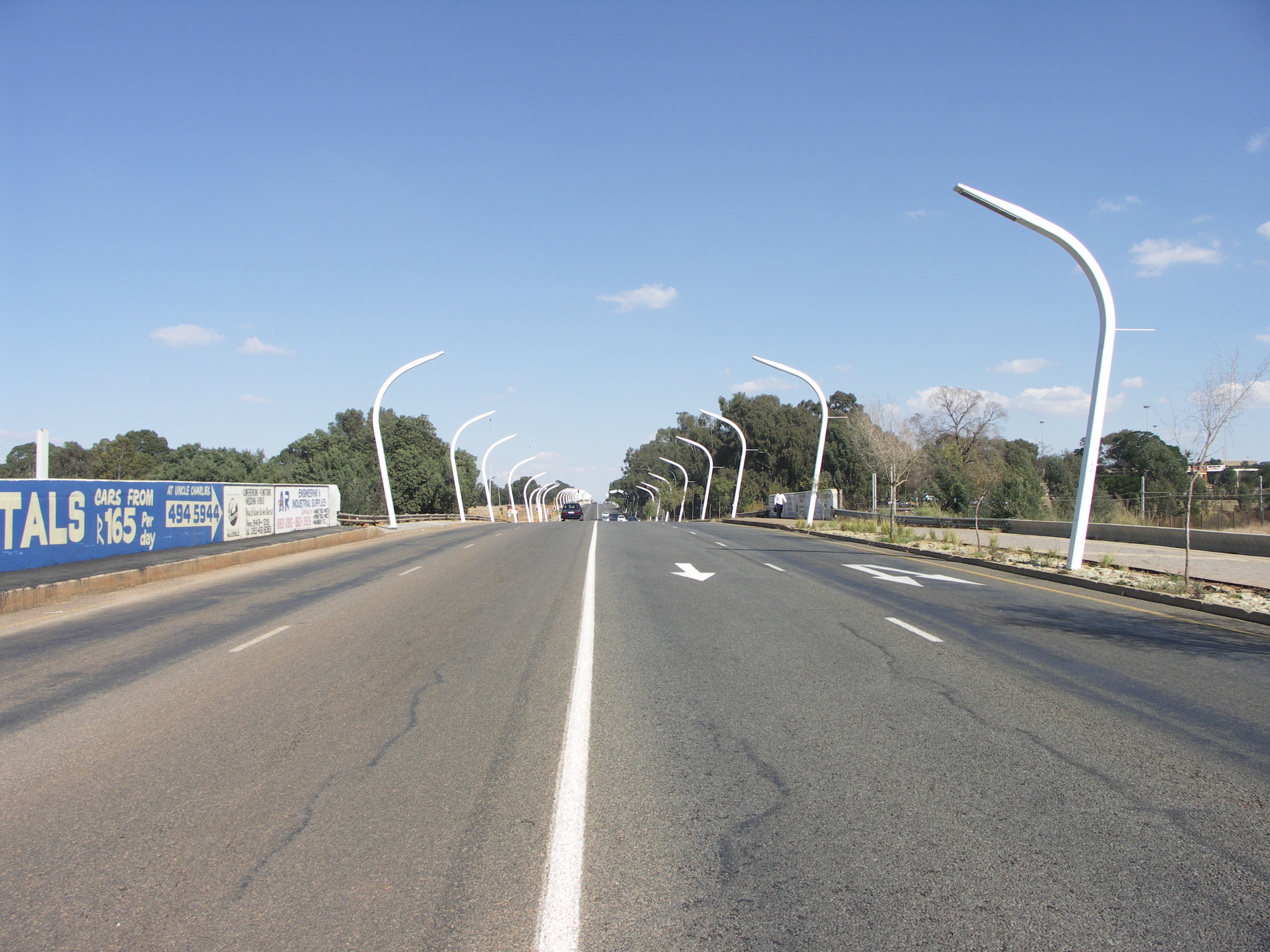 The M5(Nasrec Road) in Nasrec, Johannesburg, South Africa. Next to Soccer City